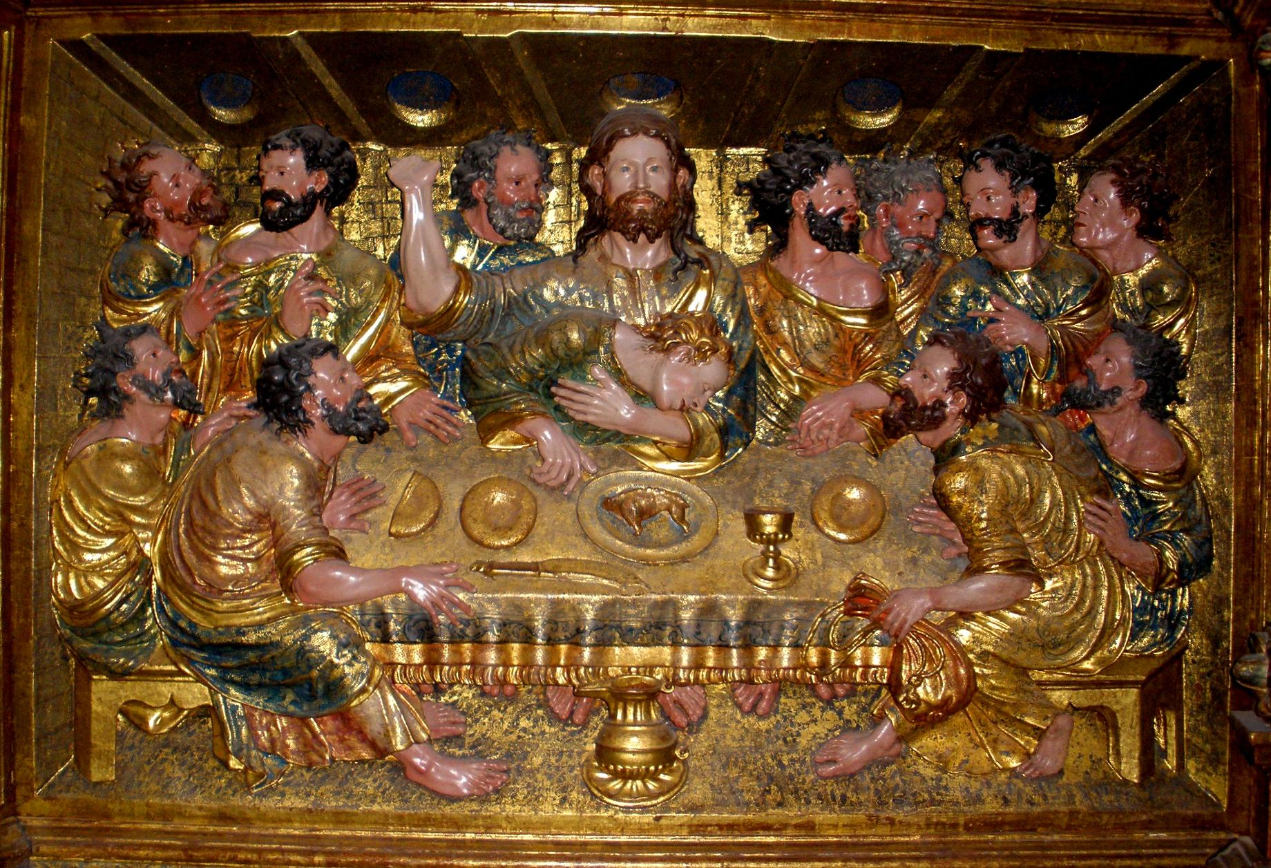 Relieve de la Última Cena, en el Retablo mayor renacentista (s-XVI) de la Iglesia parroquial de Nuestra Señora la Blanca de Agoncillo (La Rioja, España)